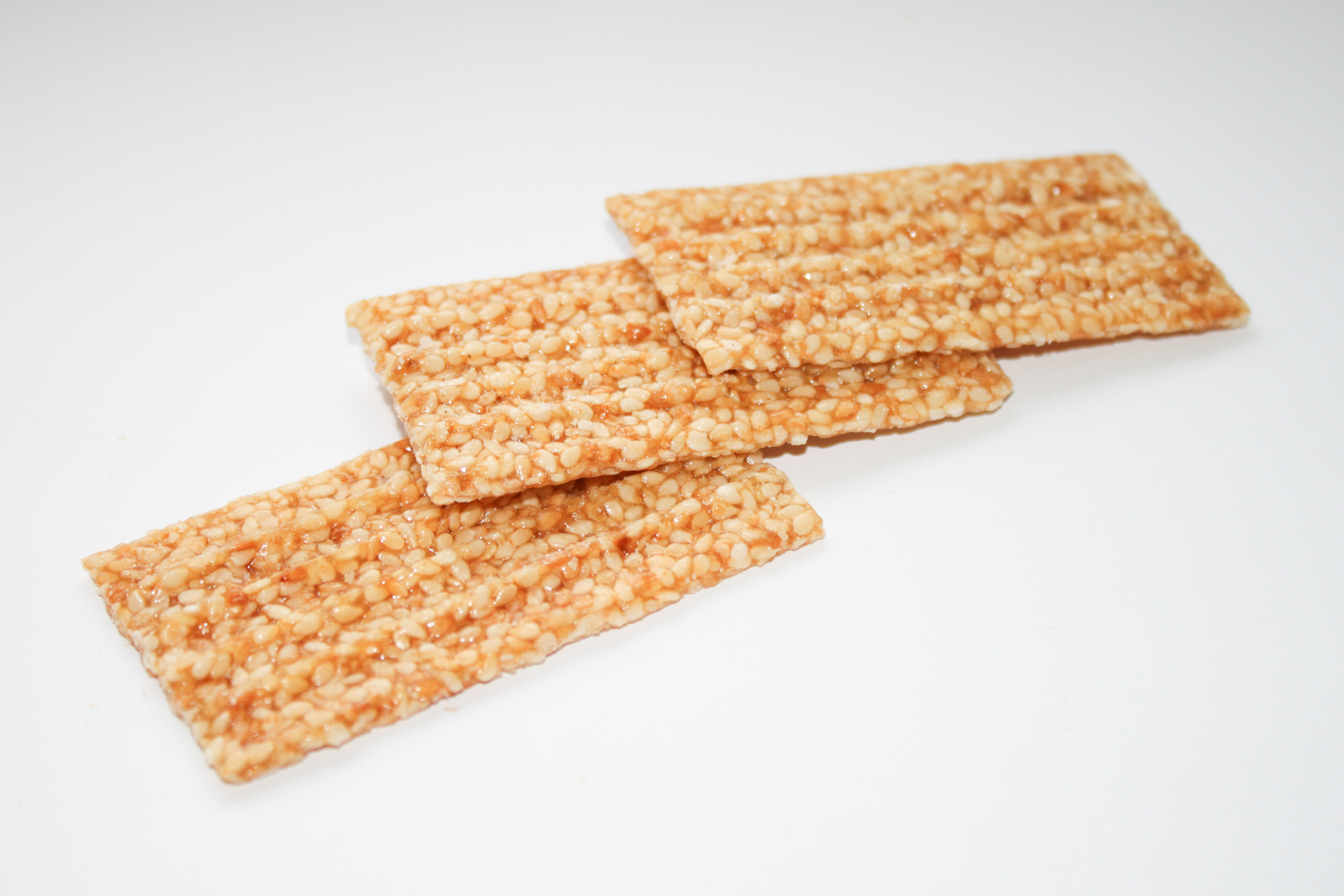 Sesame seed biscuits "Halo!"; produced for Biedronka by Product Plus Kozanecki-Begier-Słabolepszy Sp.J. ul. Sportowa 8, 63-005 Kleszczowo